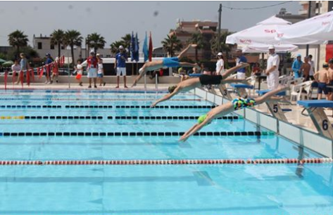 Pamje nga Pishina Taq Dafa